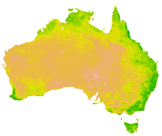 NDVI map of Australia: 6- monthly NDVI average for Australia , 1 Dec 2012 to 31 May 2013. Data downloaded from on 13 June 2018, mapped in R 14 June 2018